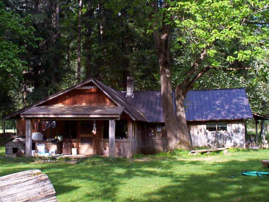 Buckner Homestead main residence, Lake Chelan National Recreation Area, Washington, USA